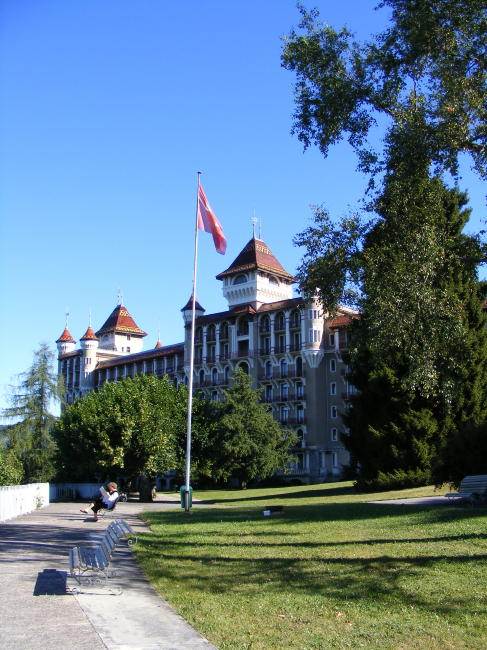 Mountain House, Caux, Switzerland